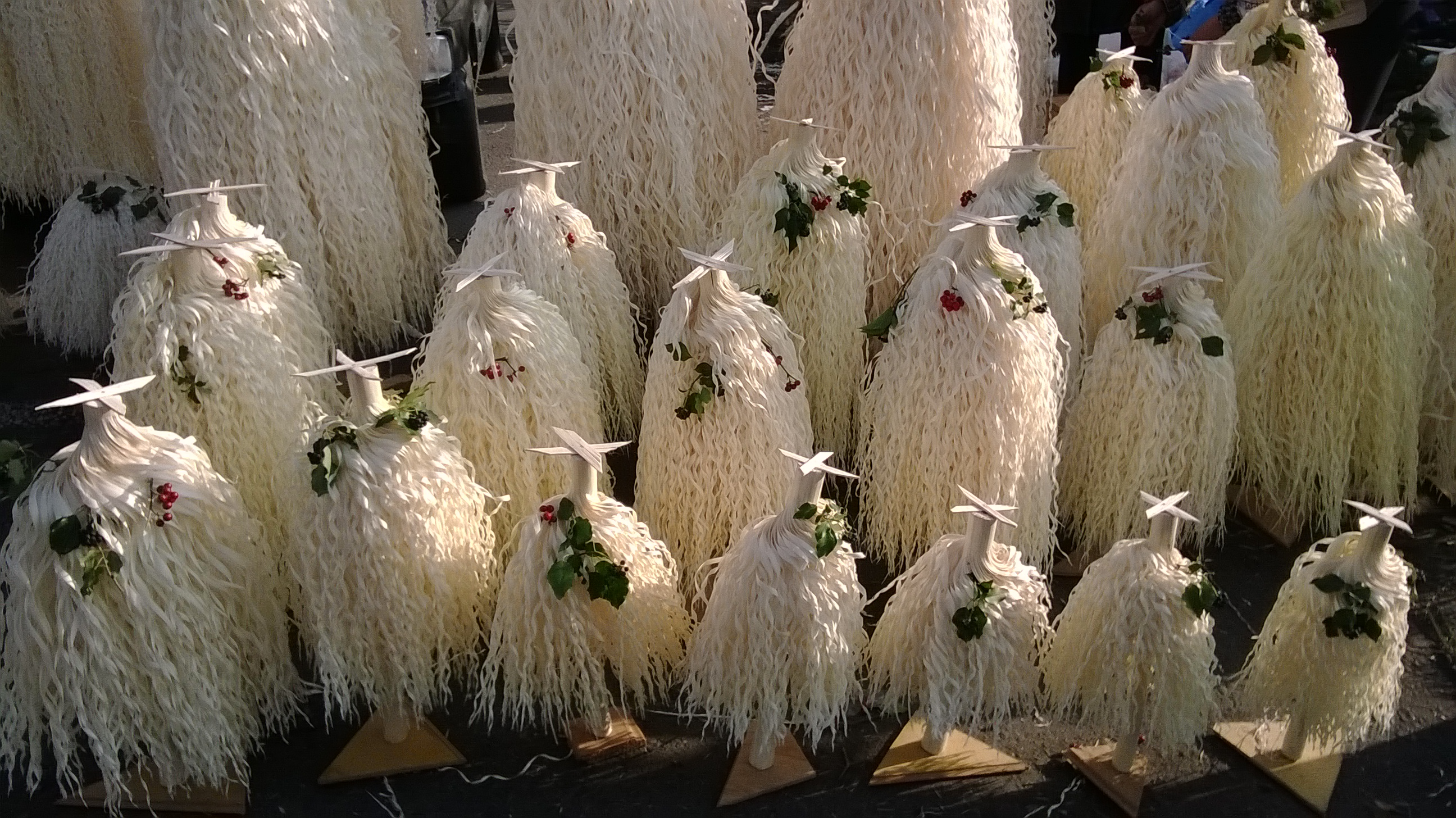 Chichilaki